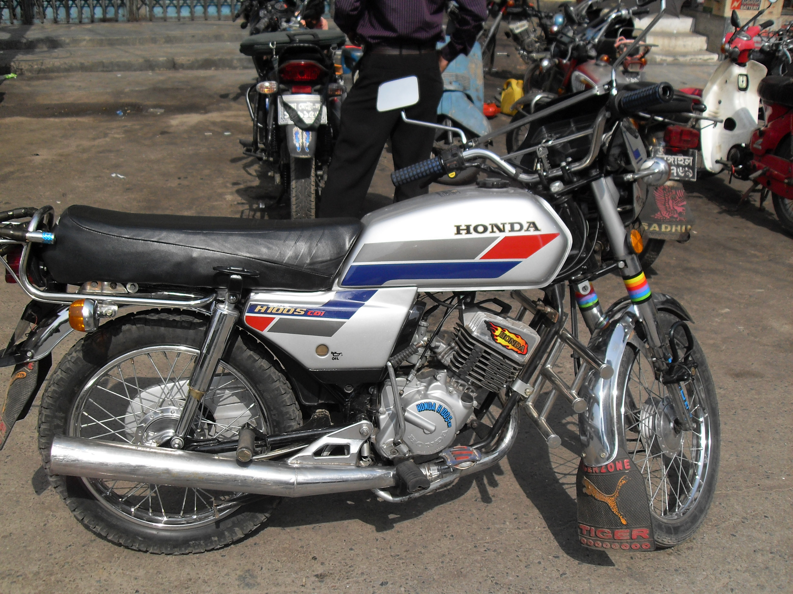 One of the Popular Honda Motorbikes of the 80's & 90's.